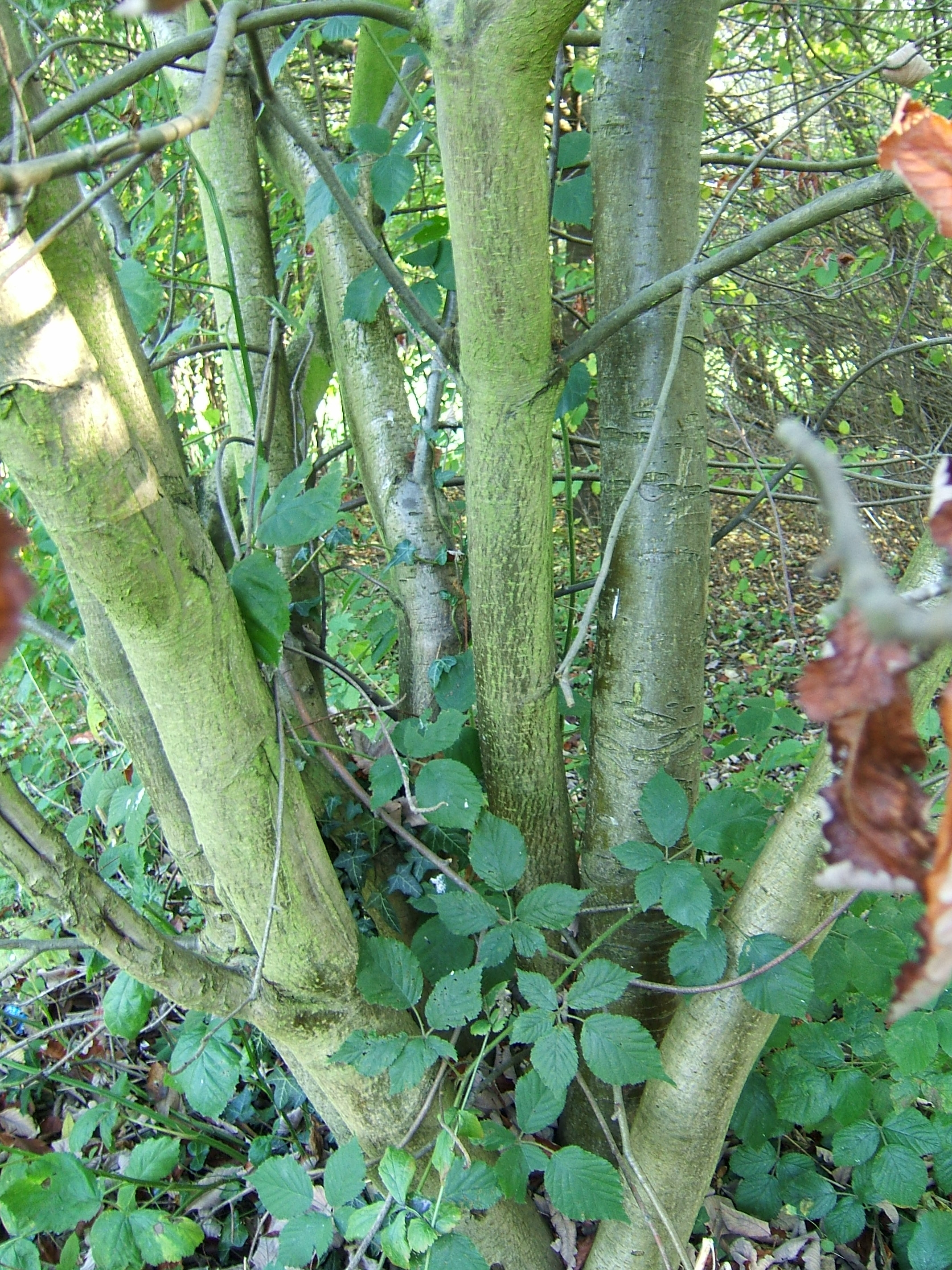 Sorbus mougeotii multistemmed trunk; cultivated, Newcastle, Northumberland, UK